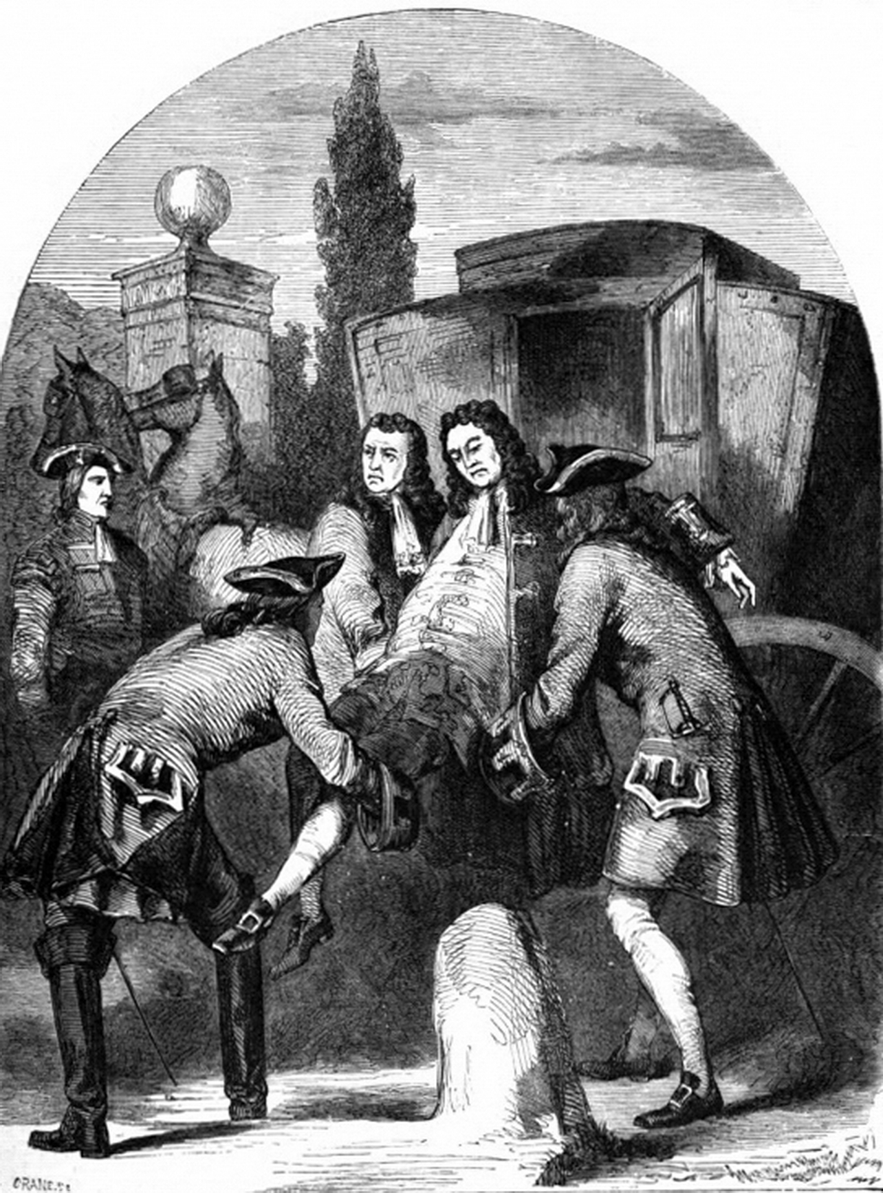 The title is the same as the image caption above and in "Cassell's Illustrated History of England, Volume 4". The number shown is the page number. Follow image link to the full book vol.4.